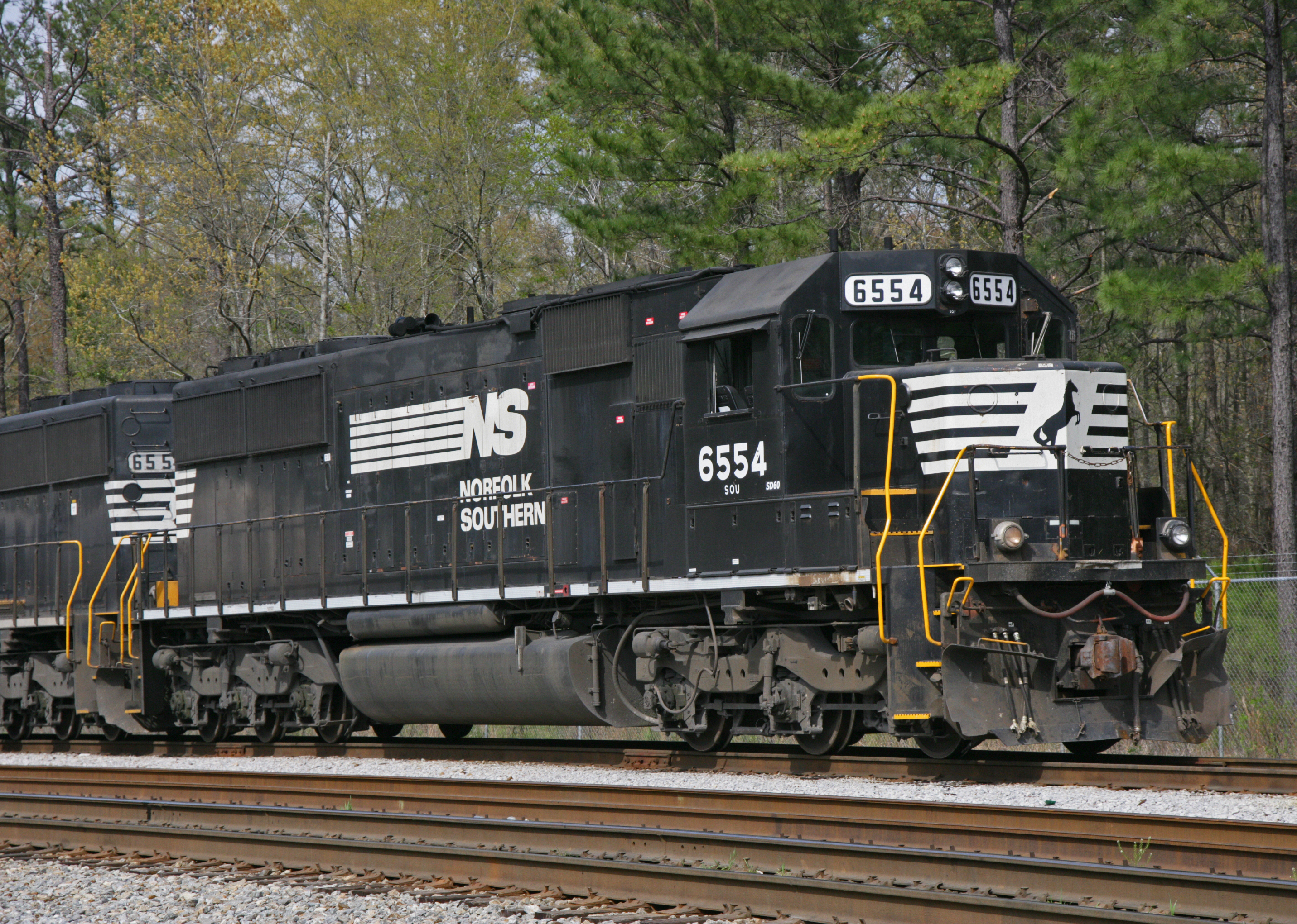 Norfolk Southern 6554, EMD SD60